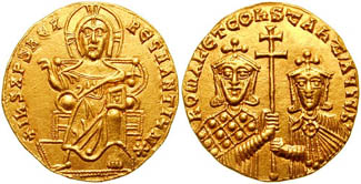 CONSTANTINE VII with ROMANUS I. 913-959 AD. AV Solidus (4.38 gm). Constantinople mint. Struck 921 AD. +IhS XPS REX REGNANTIUM*, Christ seated facing on lyre-backed throne / ROMAN' ET COnSTANT' AUGG'b', crowned facing busts of Romanus I, wearing loros, and Constantine VII, wearing chlamys, holding patriarchal cross between them. DOC III 4; BN 10; SB 1746. EF.